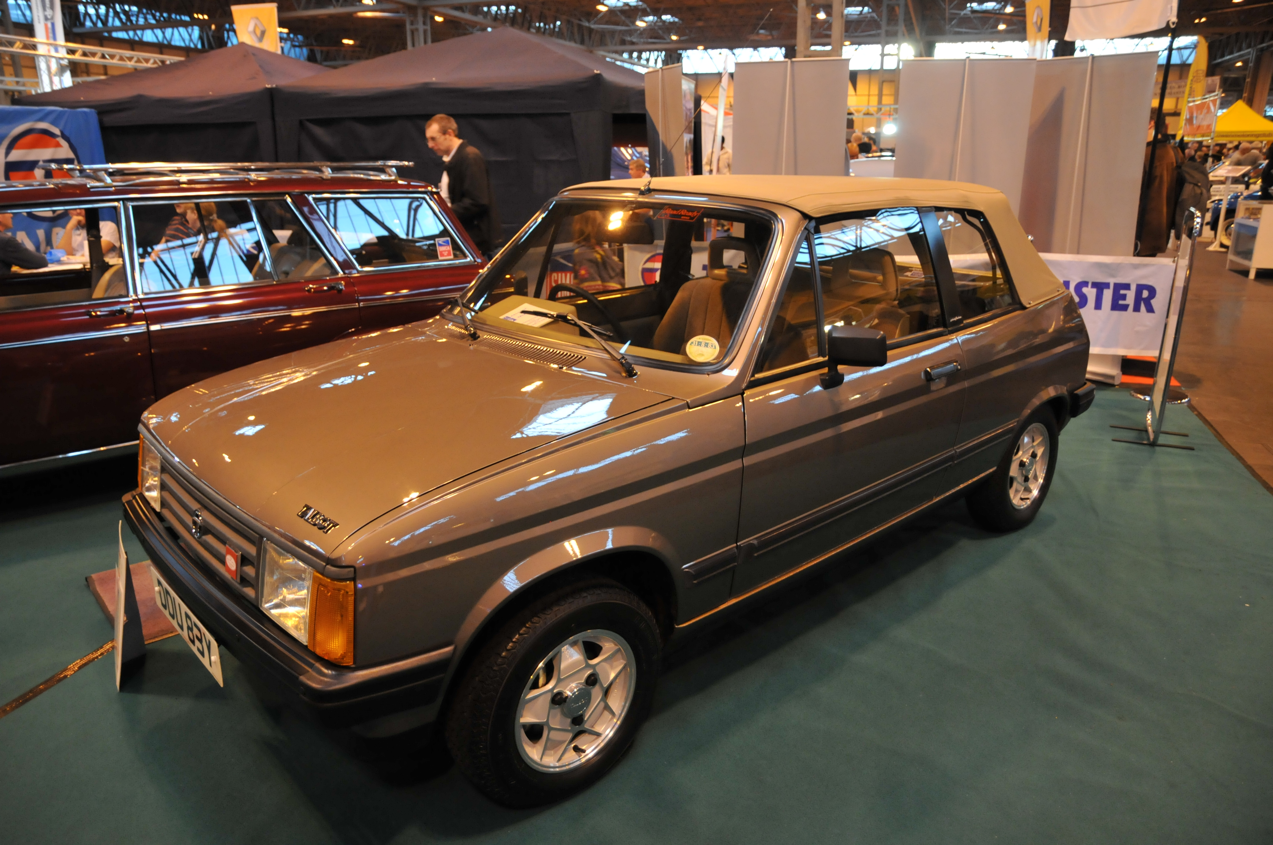 2010 NEC Clsassic Car Show